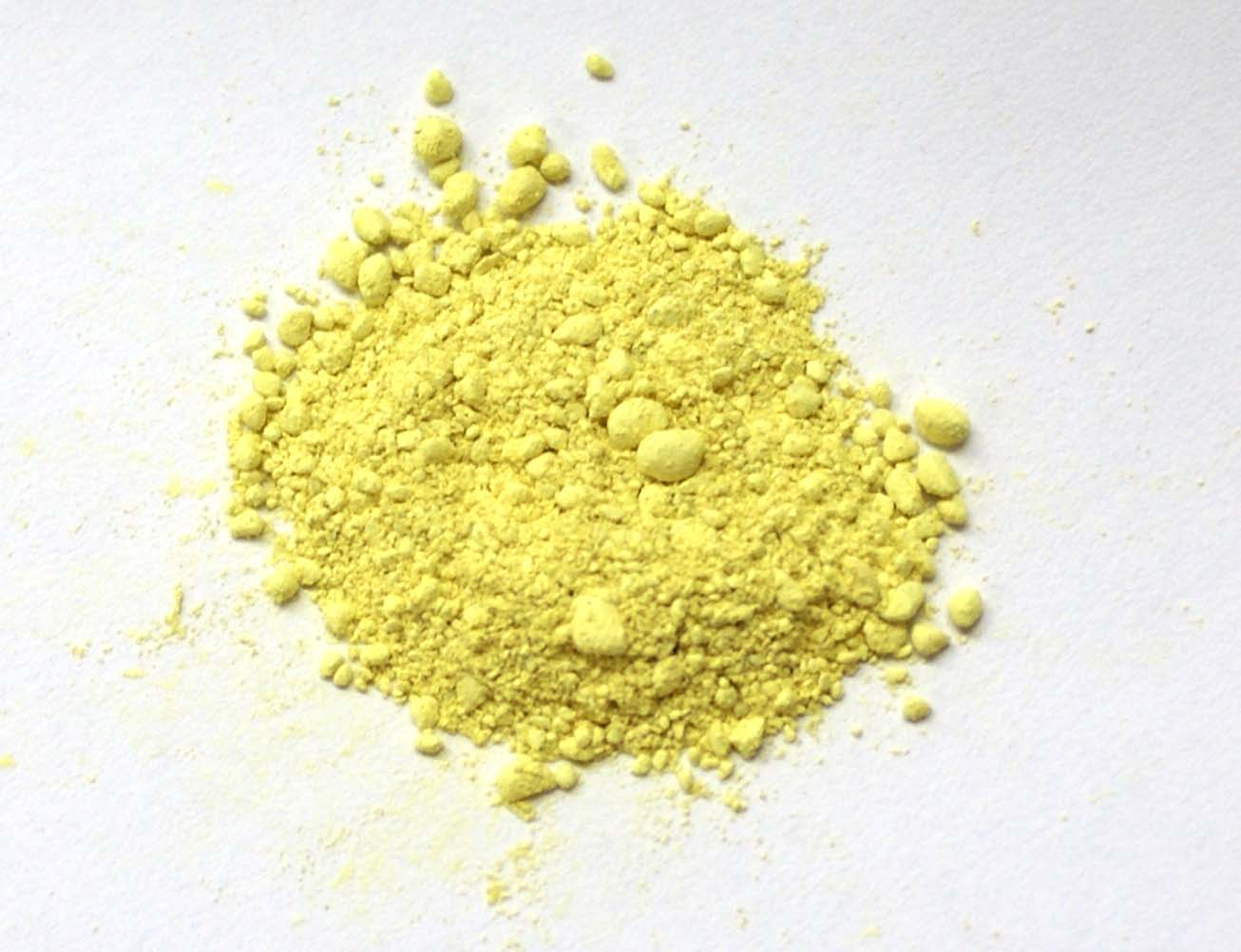 Aloin, a compound isolated from Aloe.